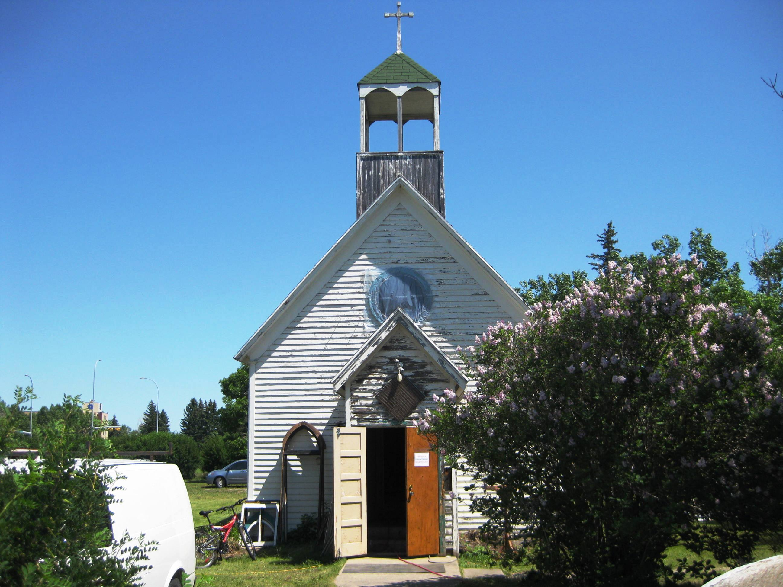 Old St. Patricks Church, Calgary, Alberta - July 2nd, 2011